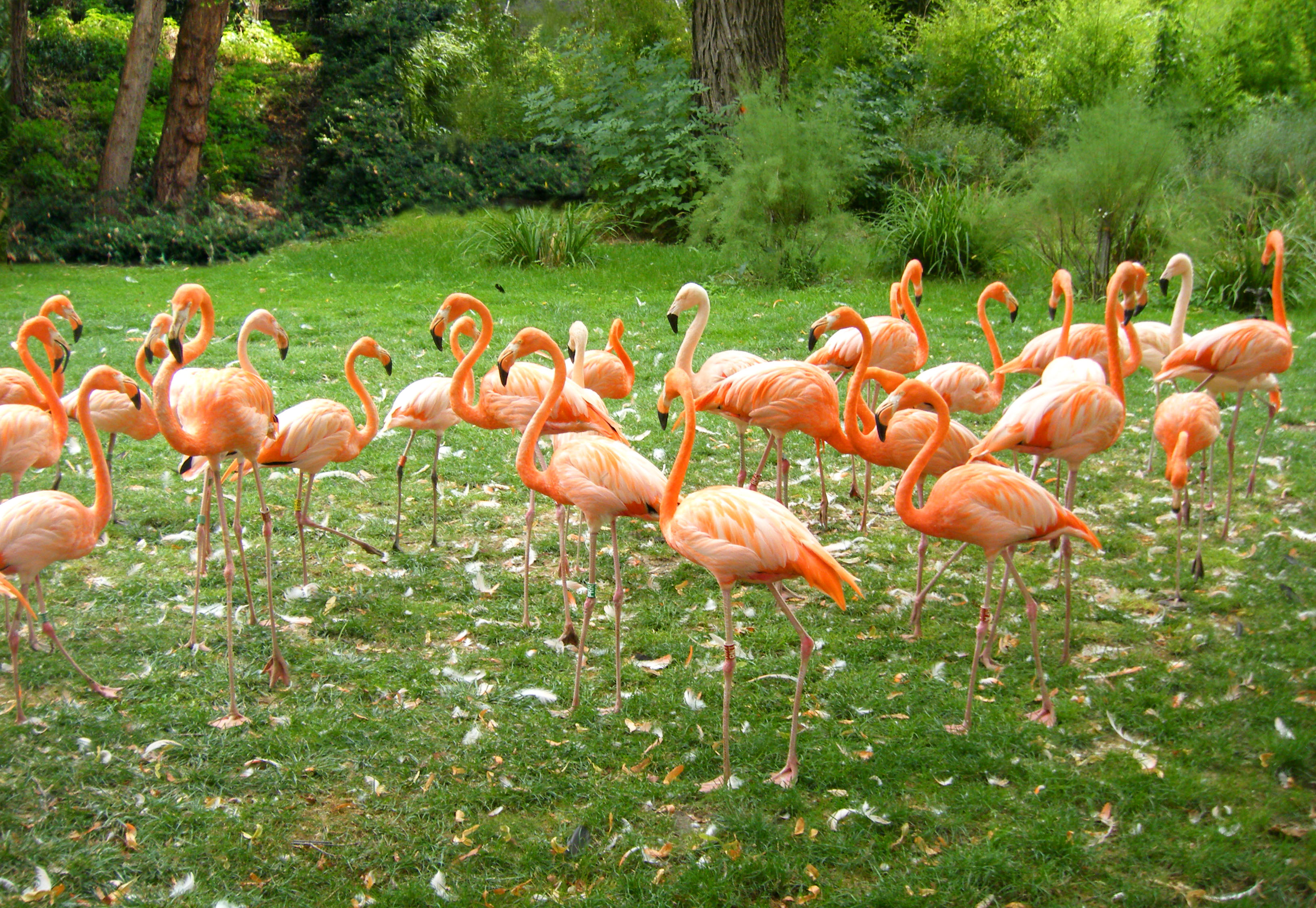 Phoenicopterus ruber